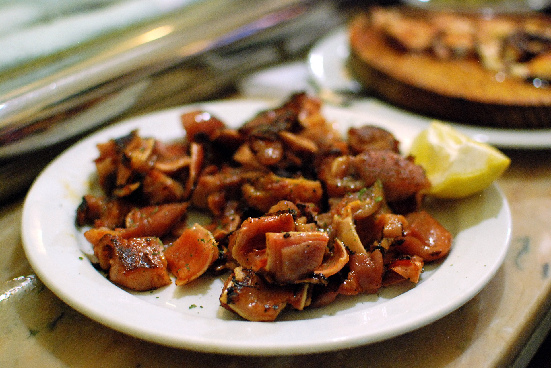 'Oreja de Cerdo', here served in a tapas bar in Madrid, are grilled pig's ears.